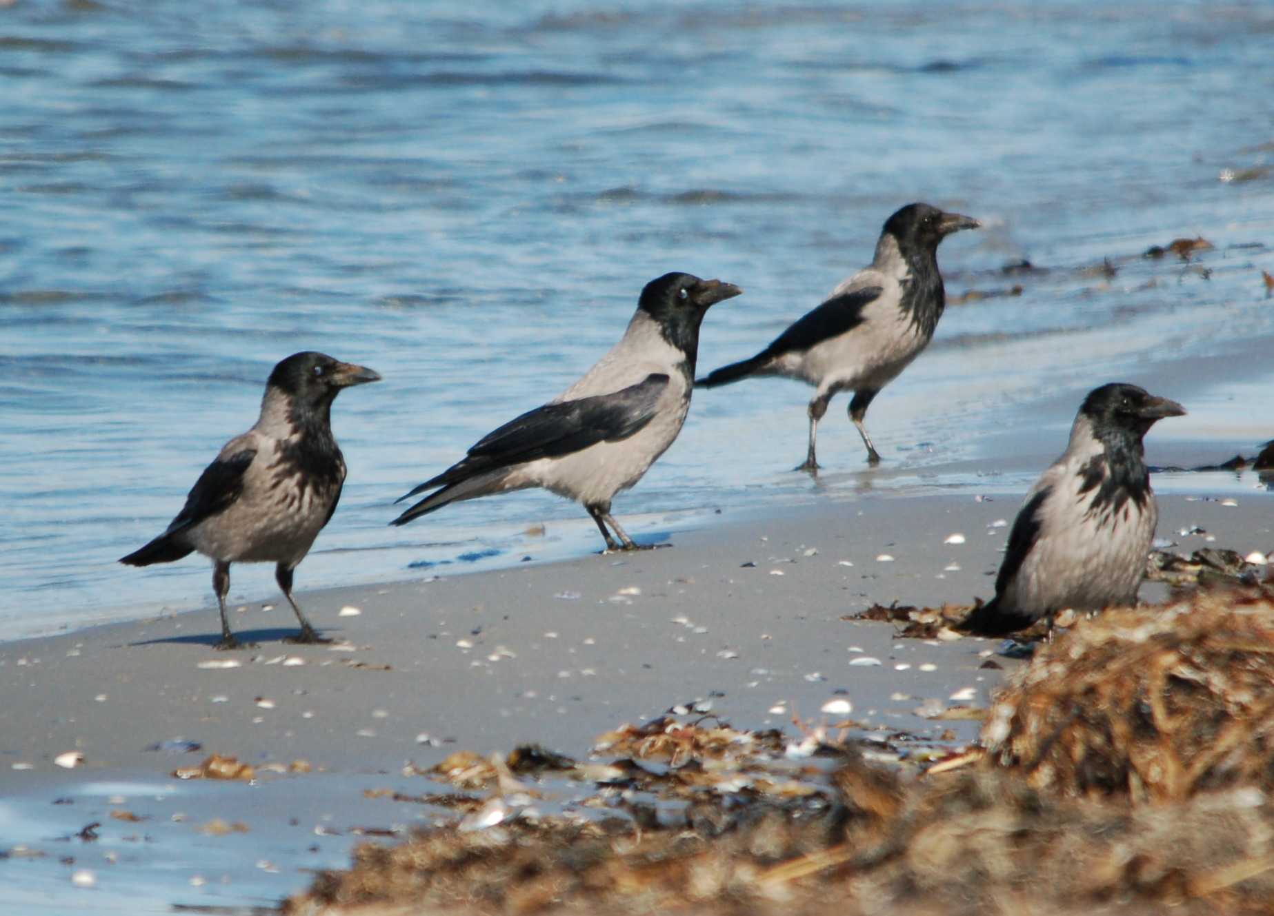 The Hooded Crow (Corvus cornix) (sometimes called Hoodiecrow)